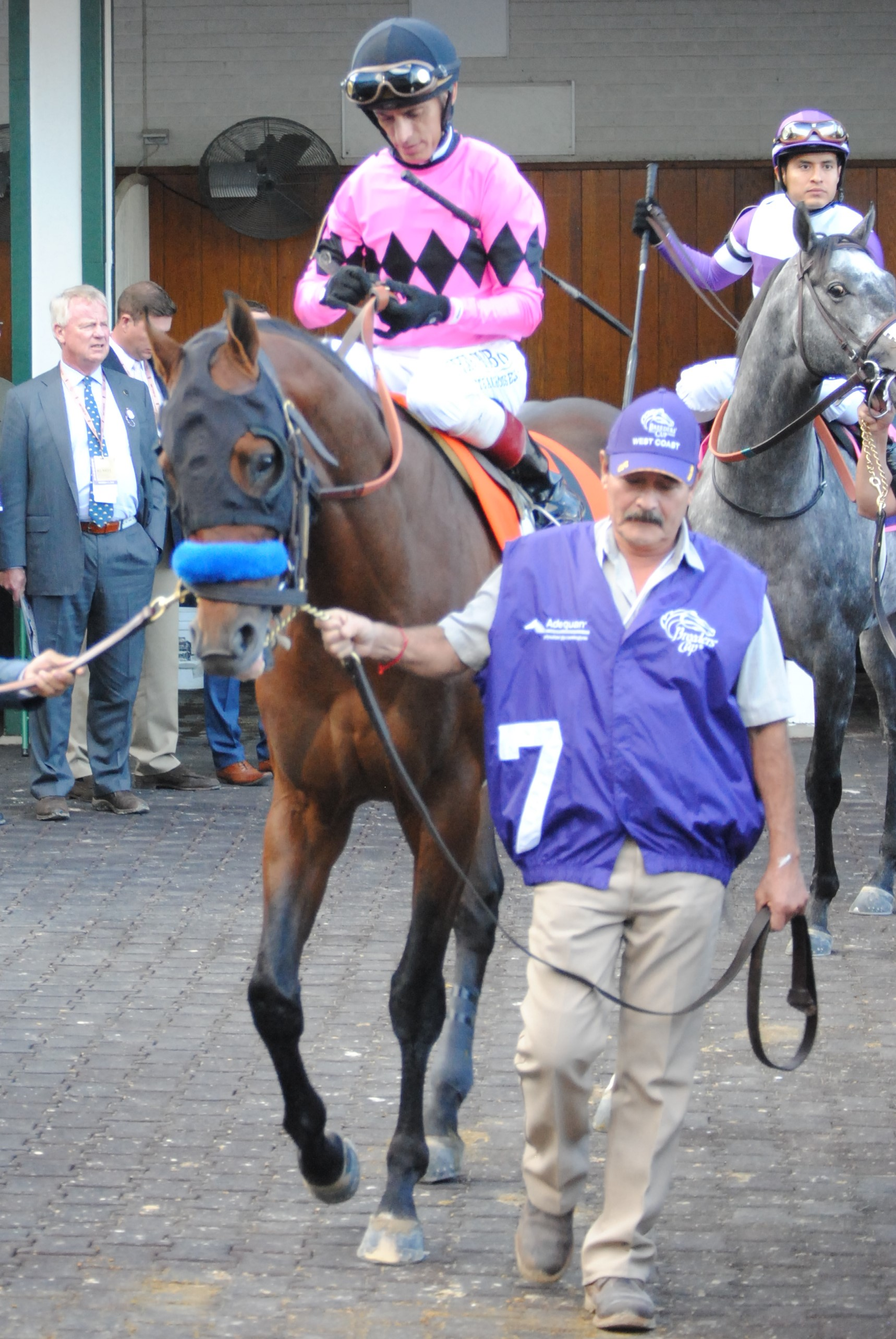 West Coast and John Velazquez at the 2018 Breeders' Cup